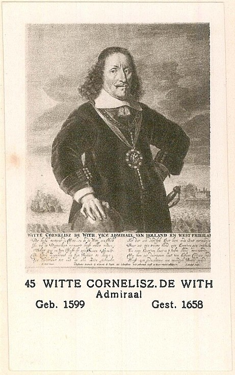 Witte de With